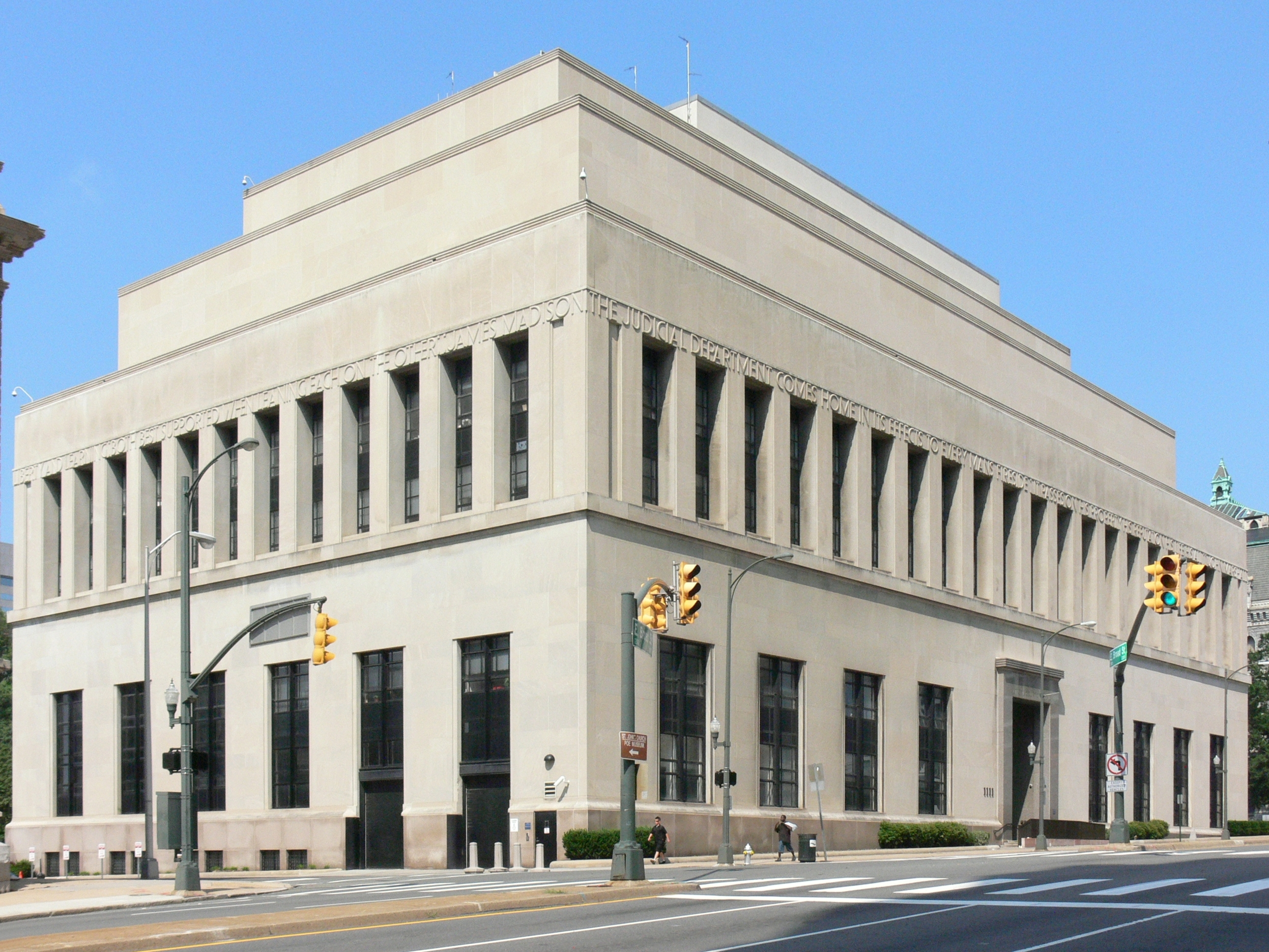 The Patrick Henry Building in Richmond, Virginia (formerly the Virginia State Library and Supreme Court of Appeals building); on the National Register of Historic Places